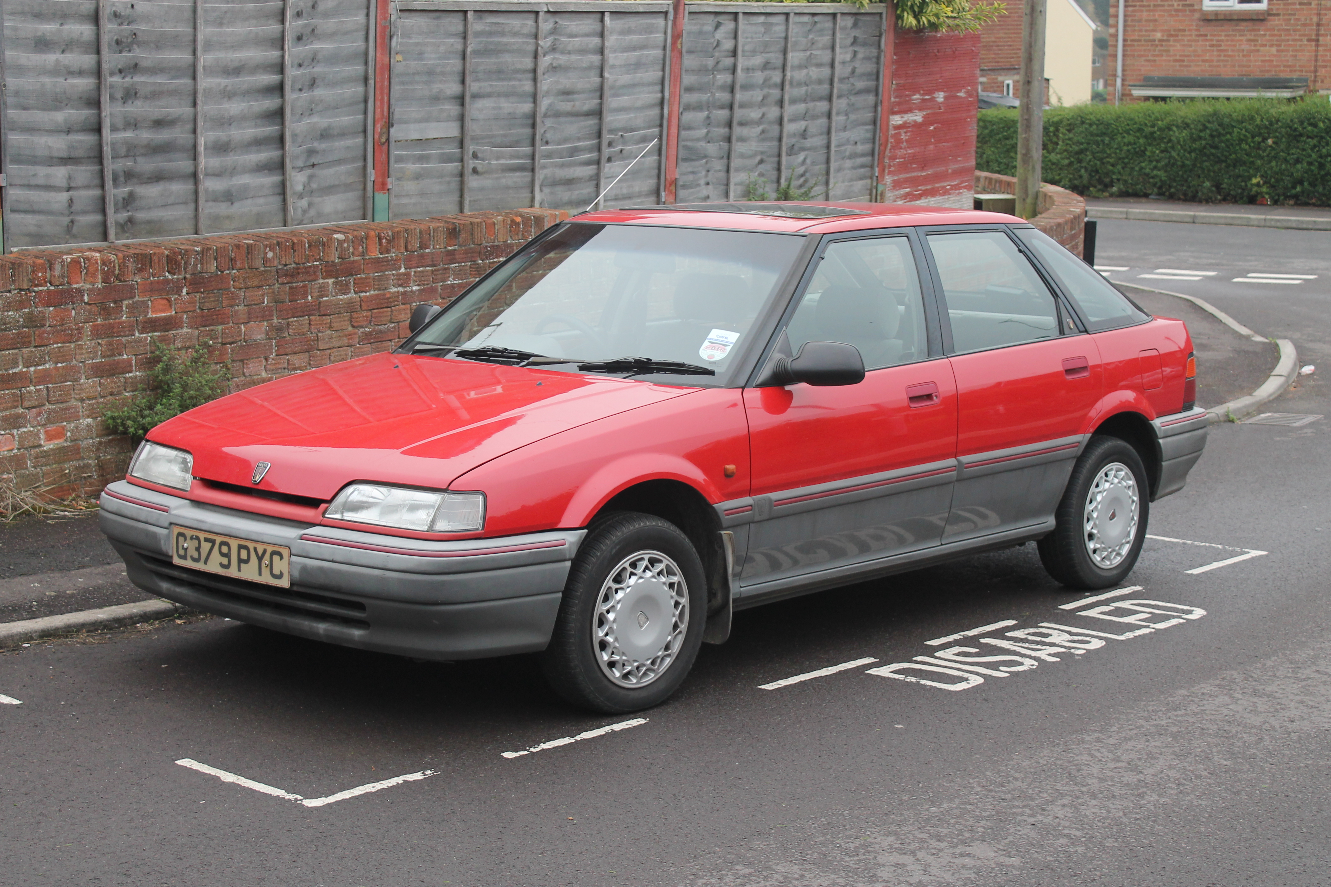 Getting significantly more difficult to spot the earlier pre-1992 Rover 200s, before the facelift, although later ones are still common. I much prefer the look of these early Rover 200 cars. This one looks very original and clean, but this was probably because it was just after a rain shower! Hard to believe it's 23 years old now. The vehicle details for G379 PYC are: Date of Liability 01 02 2014 Date of First Registration 18 06 1990 Year of Manufacture 1990 Cylinder Capacity (cc) 1396cc CO₂ Emissions Not Available Fuel Type PETROL Export Marker N Vehicle Status Licence Not Due Vehicle Colour RED Vehicle Type Approval Not Available